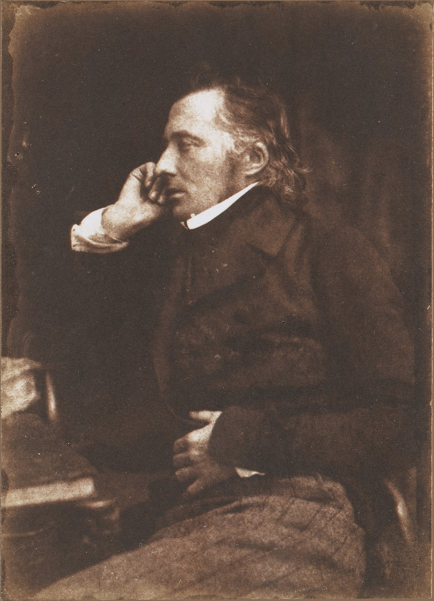 Portrait of John Stuart Blackie, Professor of Greek, Poet and Critic